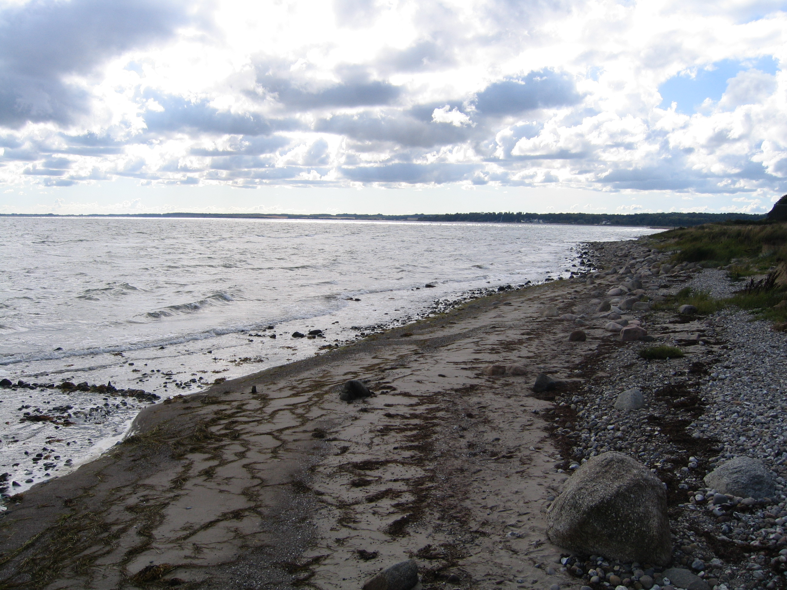 Hohwacht Bay on the Baltic Sea viewed from its western shore near the Kleiner Binnensee. Schleswig-Holstein, Germany.